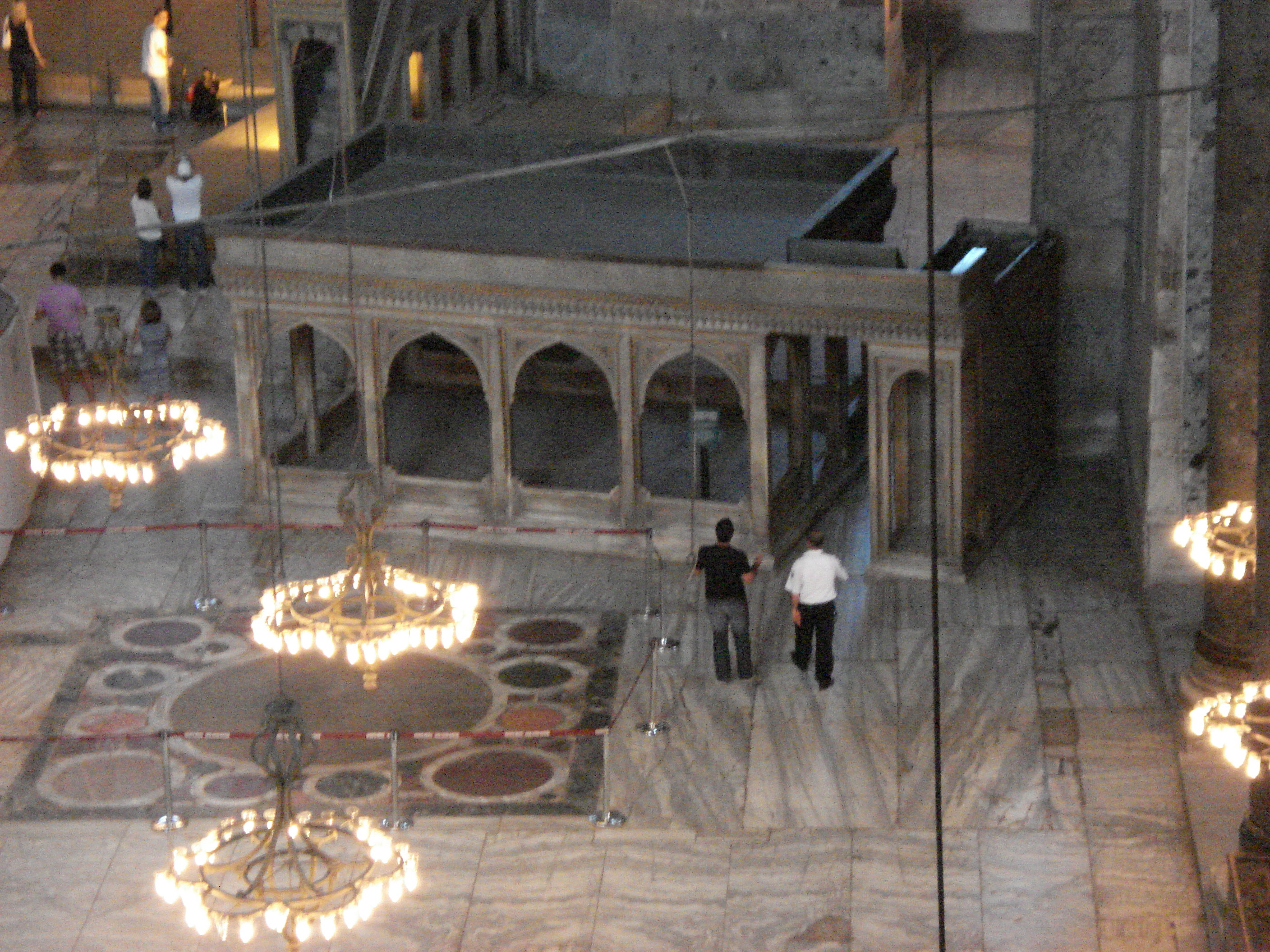 Muessin mahfili (chanter's platform) in the Hagia Sophia, Istanbul, Turkey